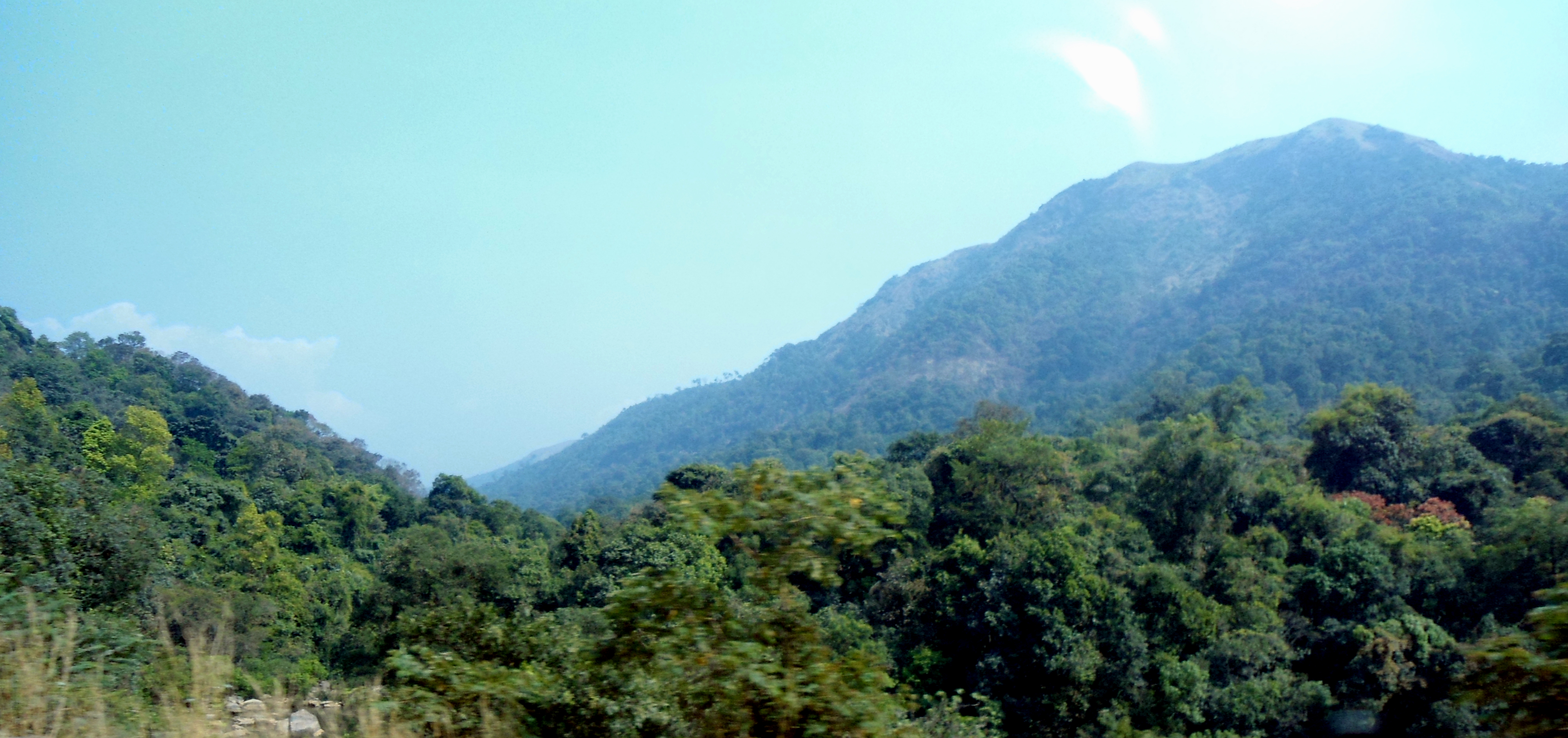 Western Ghats view near Kukke Subramanya, Dakshina Kannada district, Karnataka